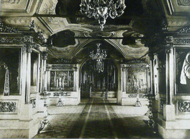 The interior of Nikola Penski church in Yaroslavl